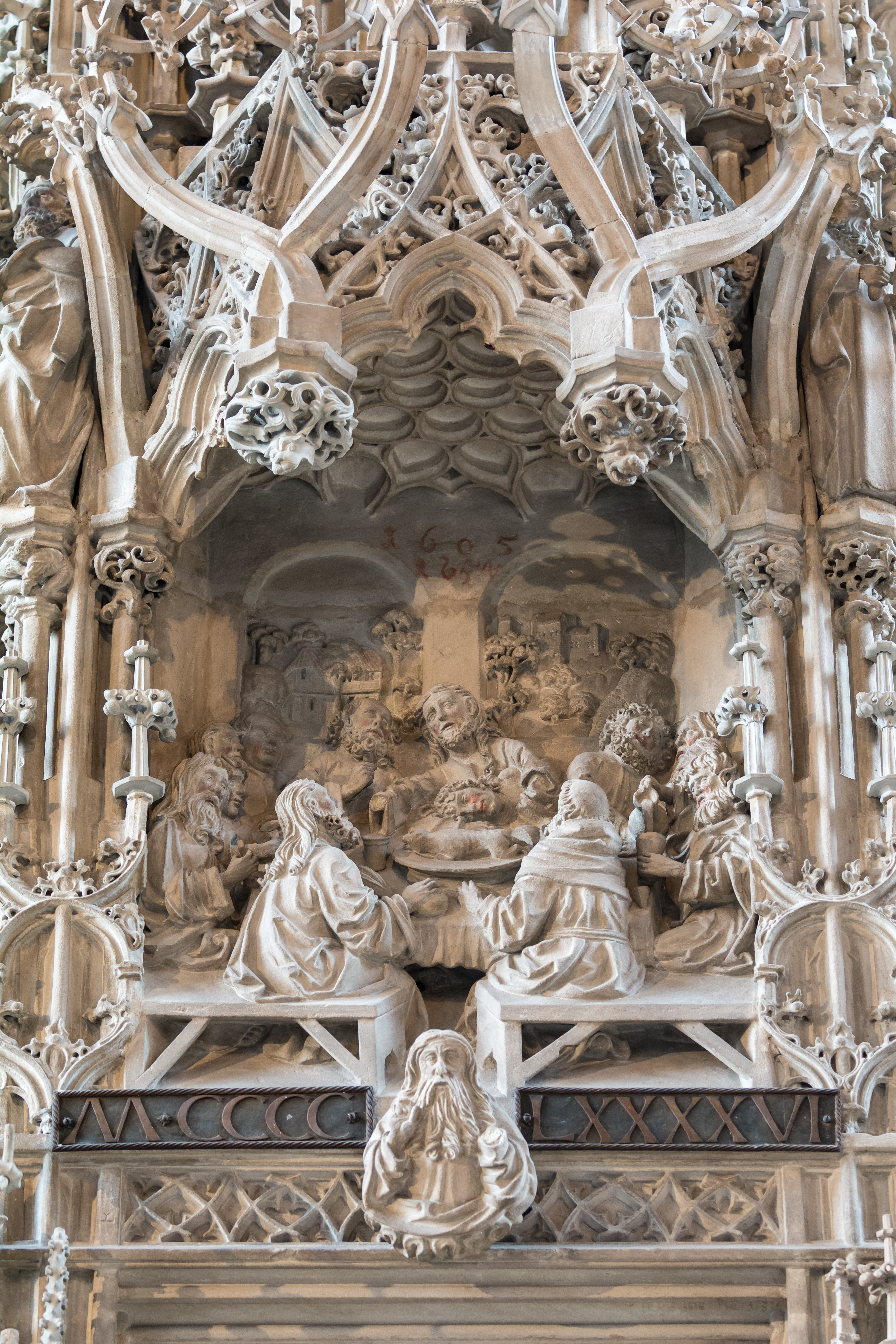 Last Supper at the sacrament house of St. Lorenz parish church in Nuremberg, Middle Franconia, Bavaria, Germany. Adam Kraft, 1493–96.